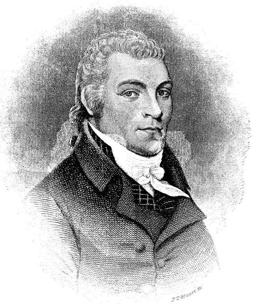 Thomas Smith Webb, the "Founding Father of the York Rite of Freemasonry."